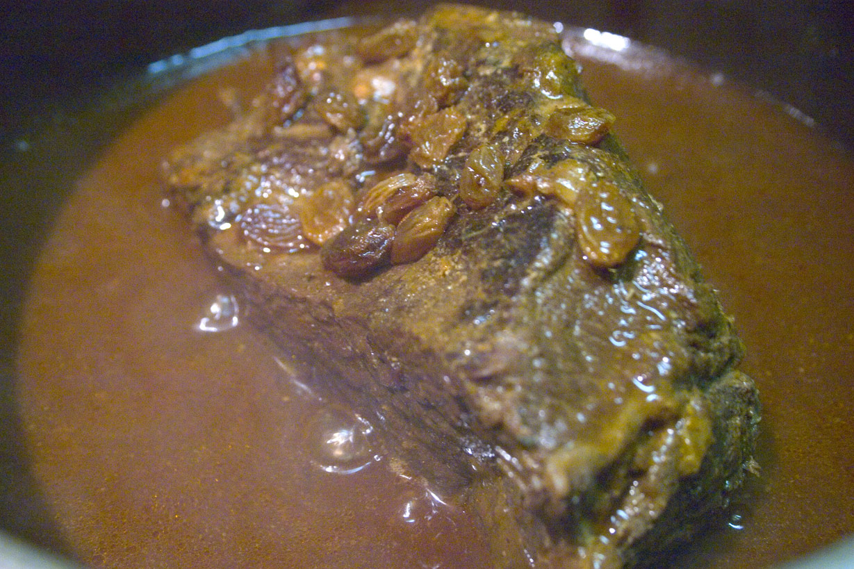 German specialty from the rhineland - ready with raisins